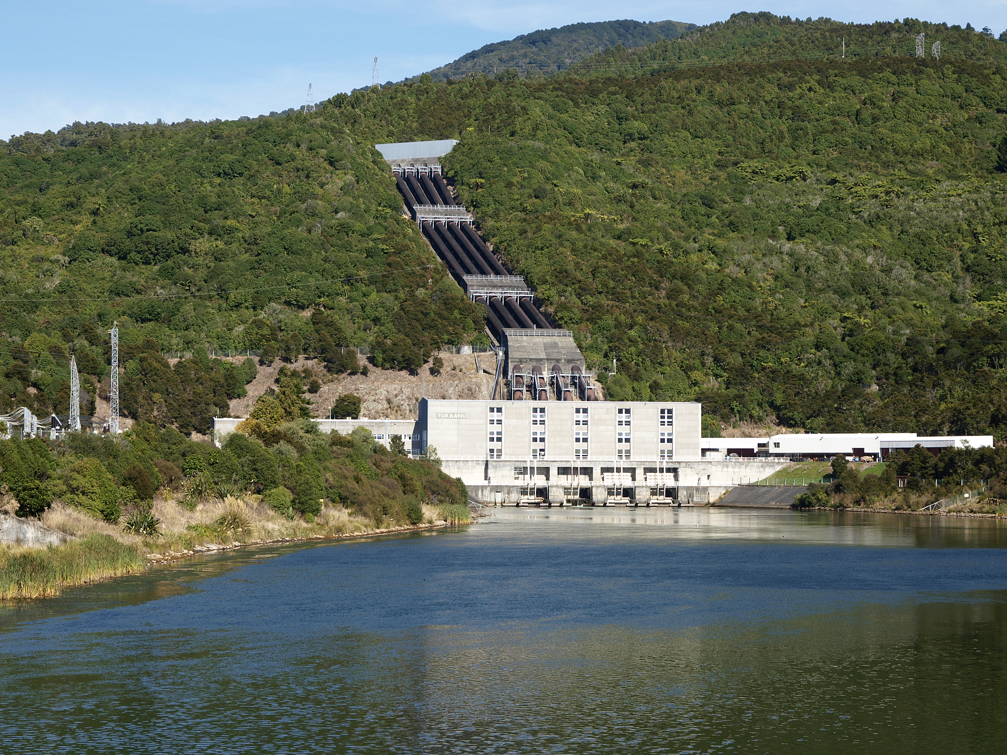 Tokaanu Power Station at Lake Taupo, Waikato, North Island, New Zealand, was built from 1966 to 1973